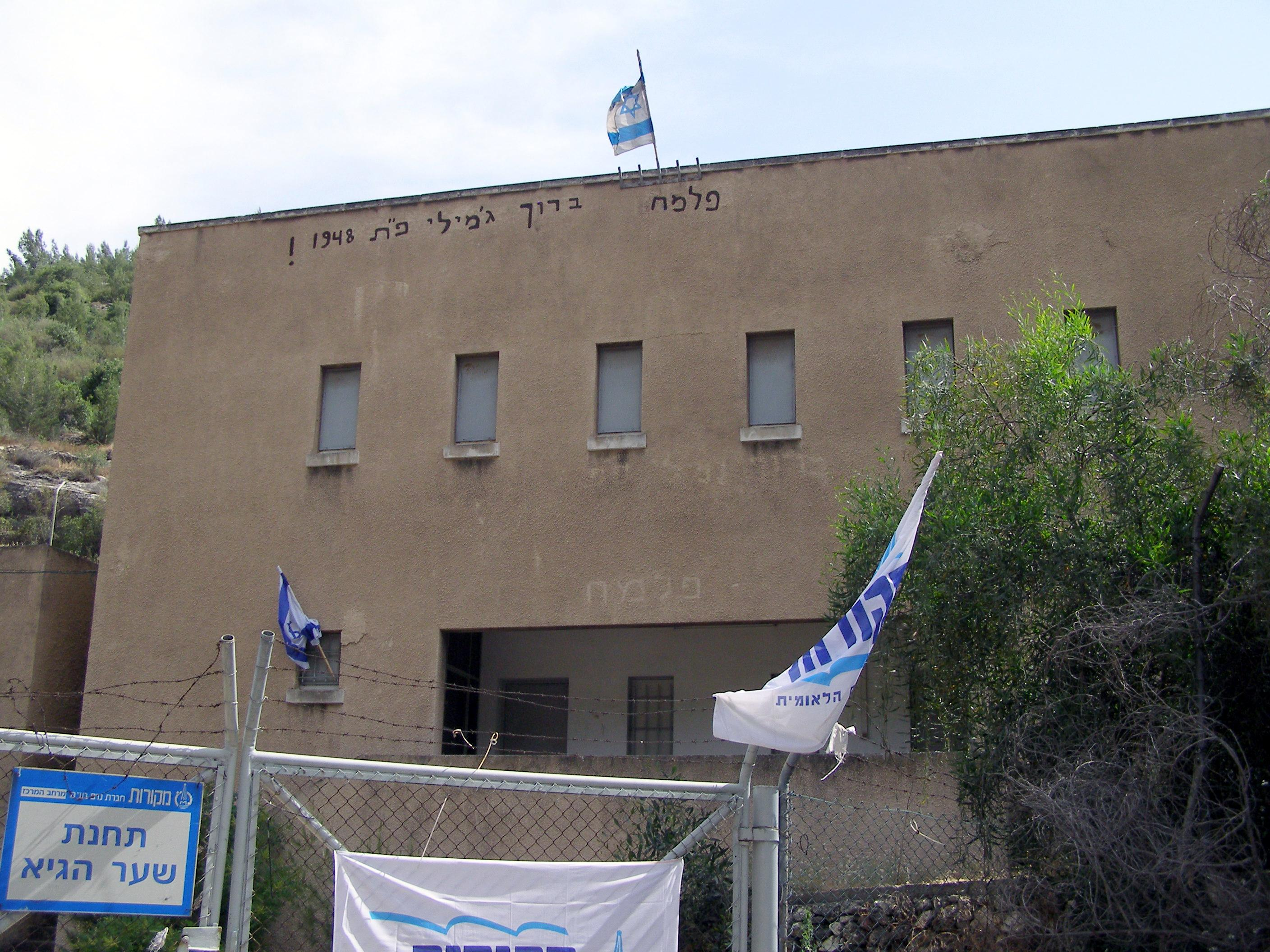 Graffity from 1948 in Sha'ar Hagai. Reads: Baruch Gamilli, Petah tiqwa, Palmach 1948. Rwnewed 2011.